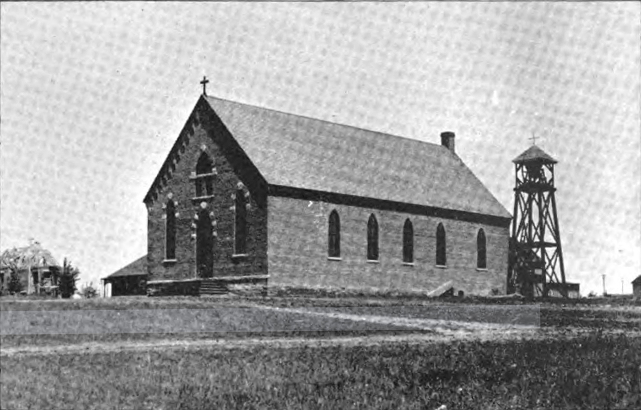 Saint Anne's Church in Great Falls, Montana, in the United States in 1894. This Roman Catholic church was built in 1890, and opened on October 7, 1890. Three local parishioners paid its $3,000 cost of construction. The brick facility was demolished in 1936 to make way for the Heisey Youth Center.